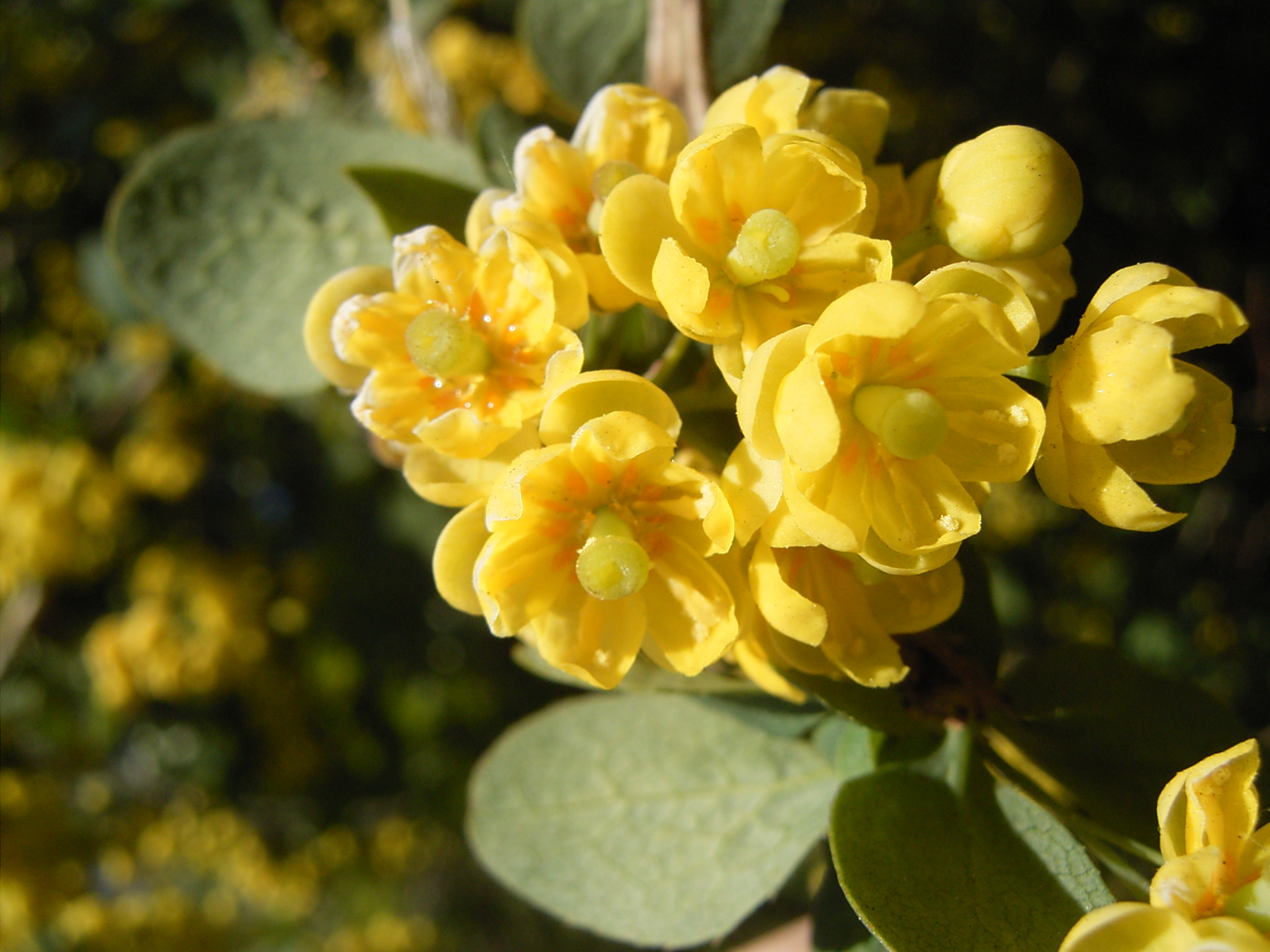 This photo shows flowers of berberis vulgaris